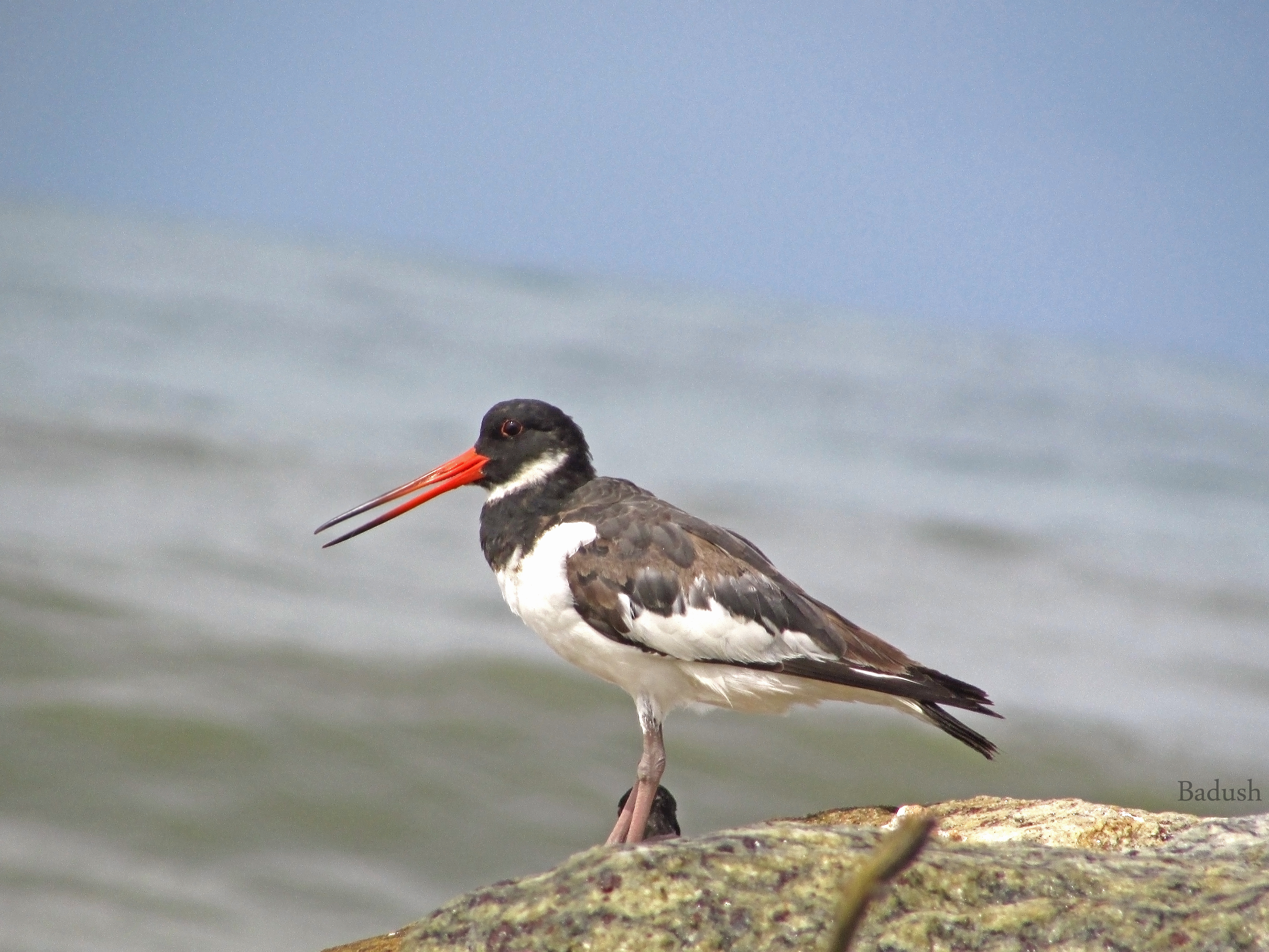 Eurasian Oystercatcher Haematopus ostralegus, Kerala